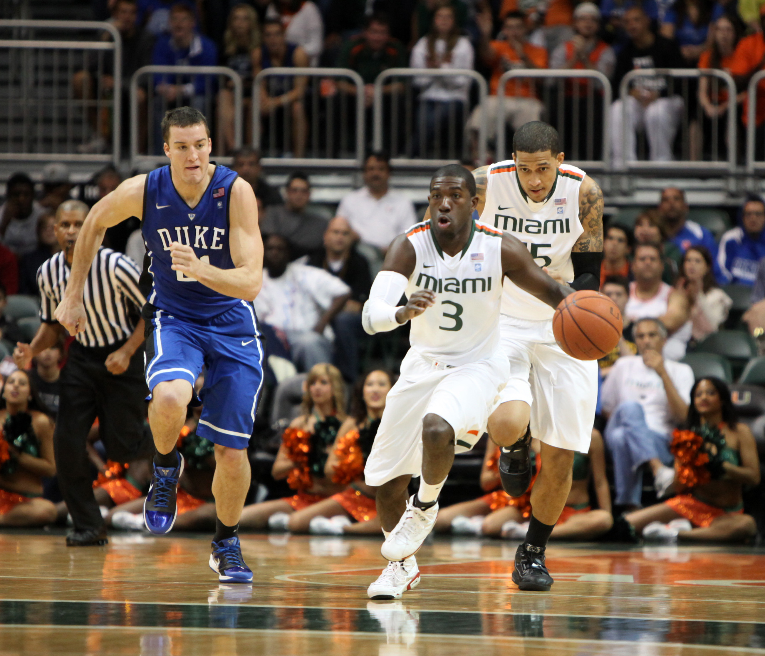 Miami Hurricanes guard Malcolm Grant (3) drives the ball during the game between Miami and Duke at Bank United Center in Coral Gables, Florida.The Duke Blue Devils defeated the Miami Hurricanes 81-71